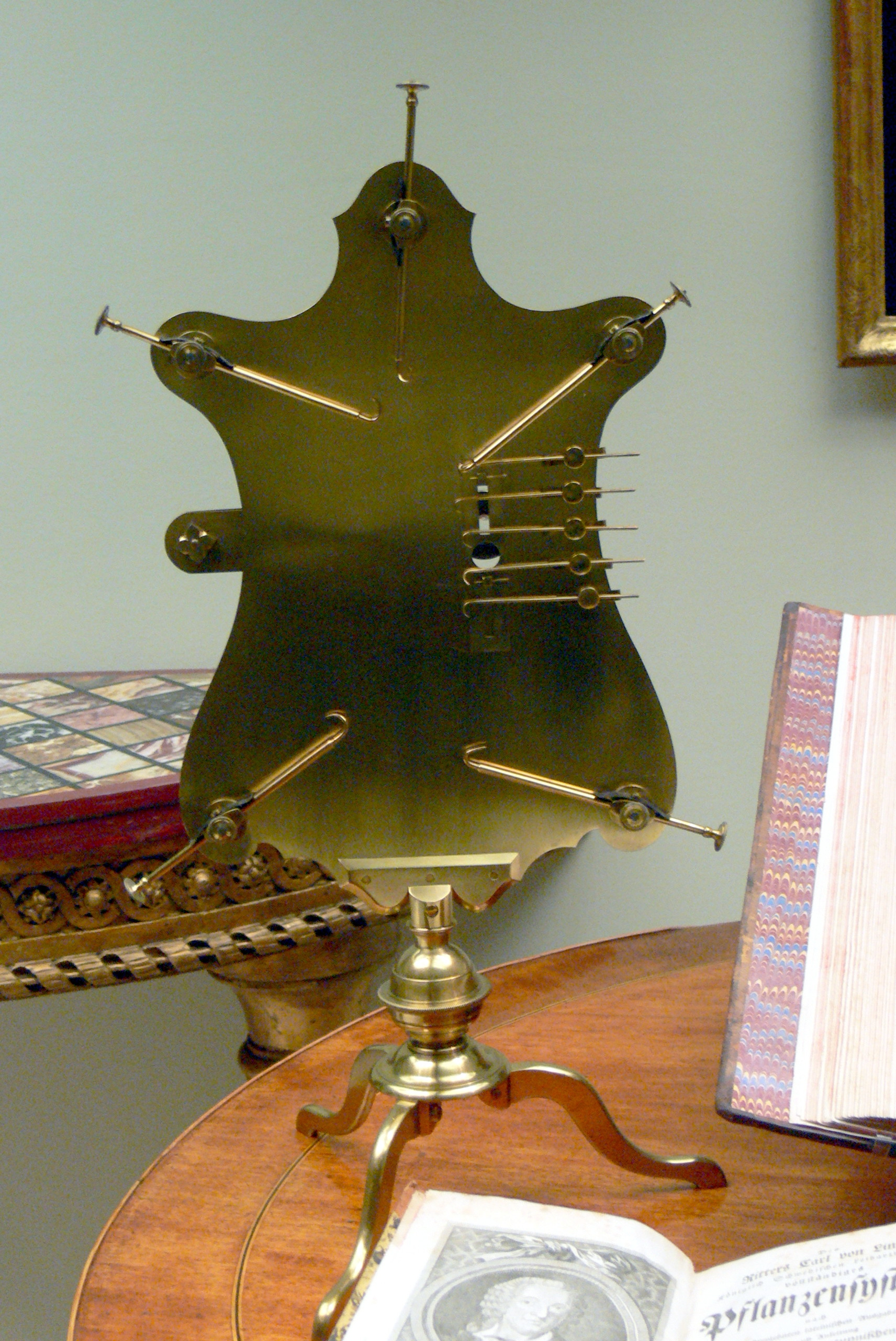 German Historical Museum ( Berlin ). Frog plate for pinning frogs and other small animals, by Johann Nathanael Lieberkühn ( 1734 )